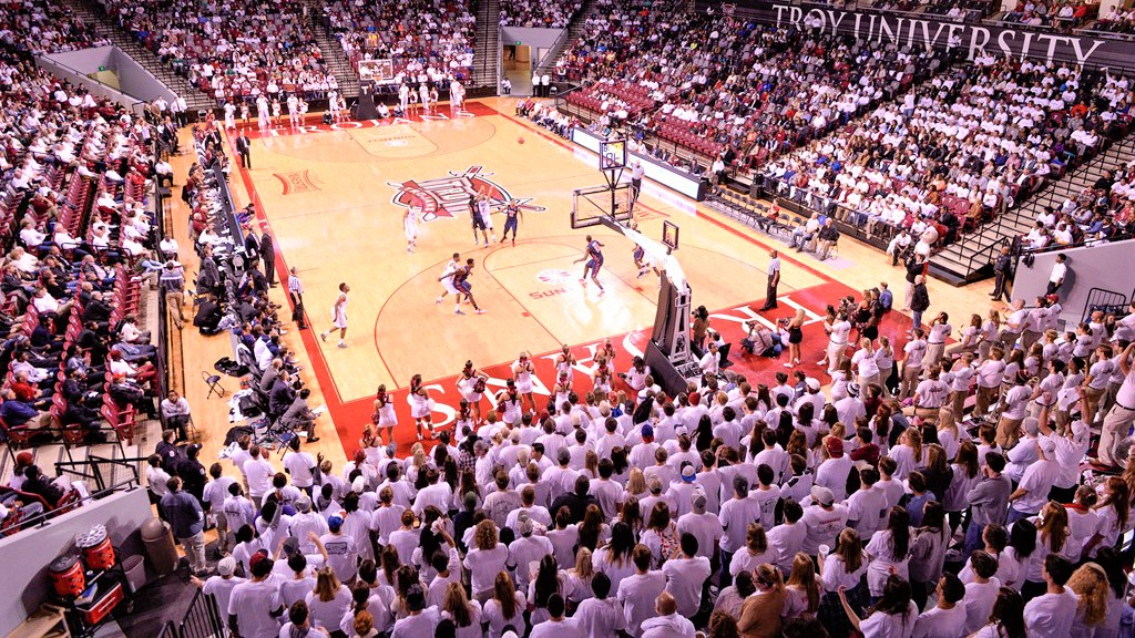 Trojan Arena during the whiteout game against South Alabama on November 22, 2017.